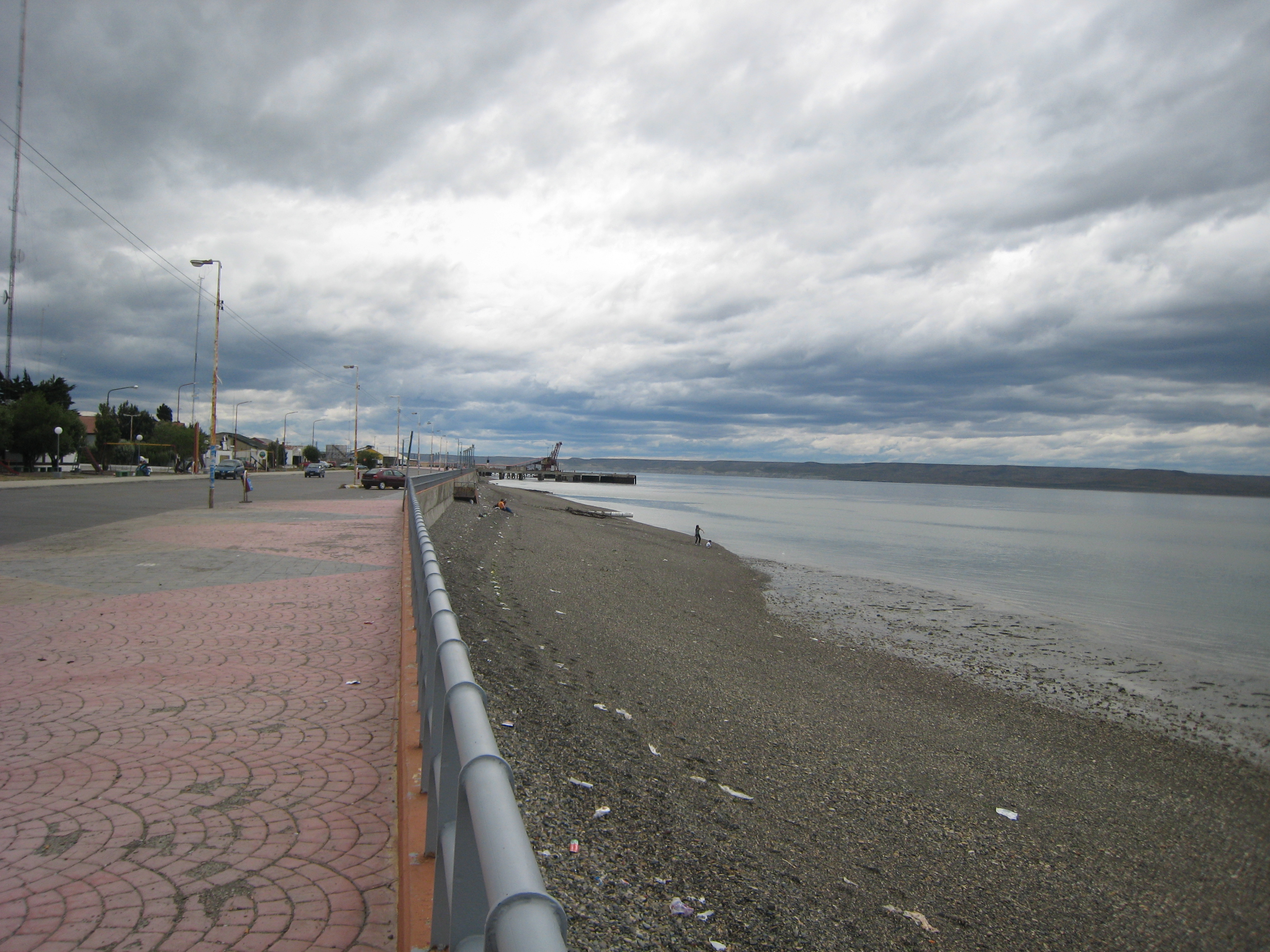 Rio Gallegos in december 2007